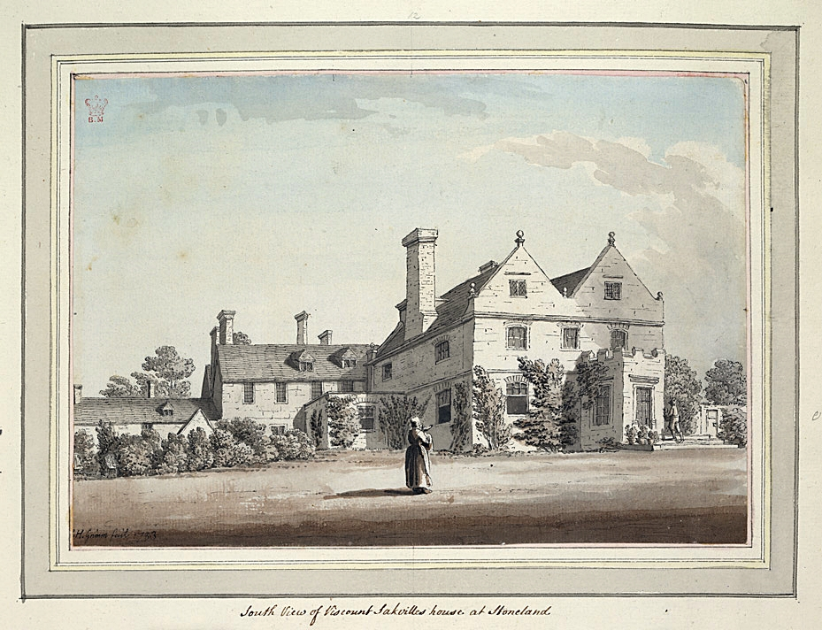 Stoneland Lodge, Withyham, Sussex. The home of George Germain, 1st Viscount Sackville. Water colour painted by Samuel Hieronymus Grimm in 1783.